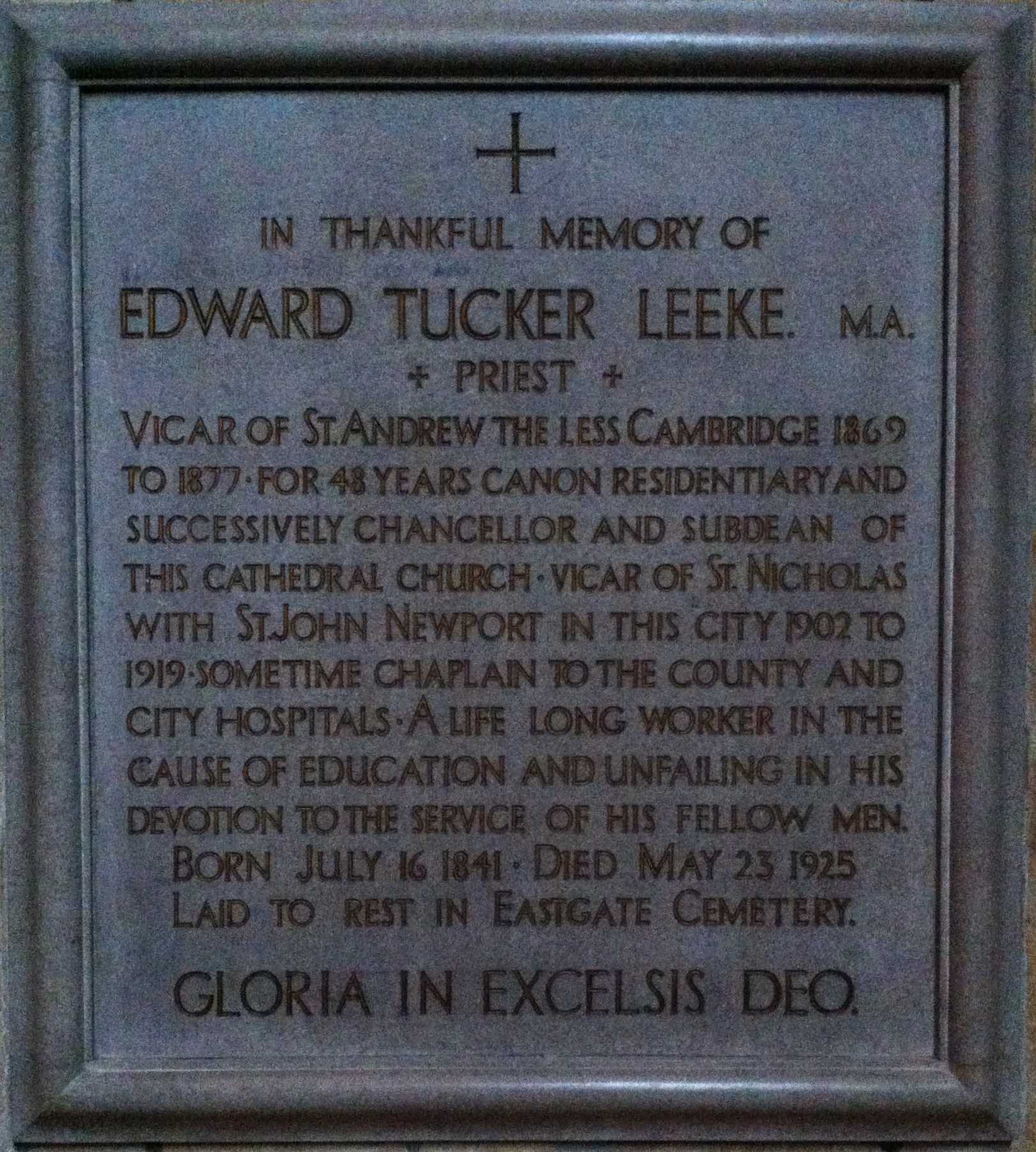 Edward Tucker Leeke MA Priest Vicar of St Andrew the Less Cambridge 1869 to 1877. For 48 years Canon Residentiary and successively Chancellor and SubDean of this Cathedral Church. Vicar of St Nicholas with St John Newport in this City 1902 to 1919. Sometime chaplain to the county and city hospitals. A life long worker in the cause of education and unfailing in his devotion to the service of his fellow men. Born 16 July 1841. Died 23 May 1925. Laid to rest in Eastgate Cemetery.